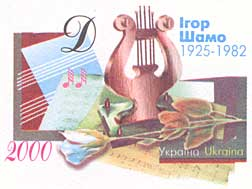 Stamp of Ukraine